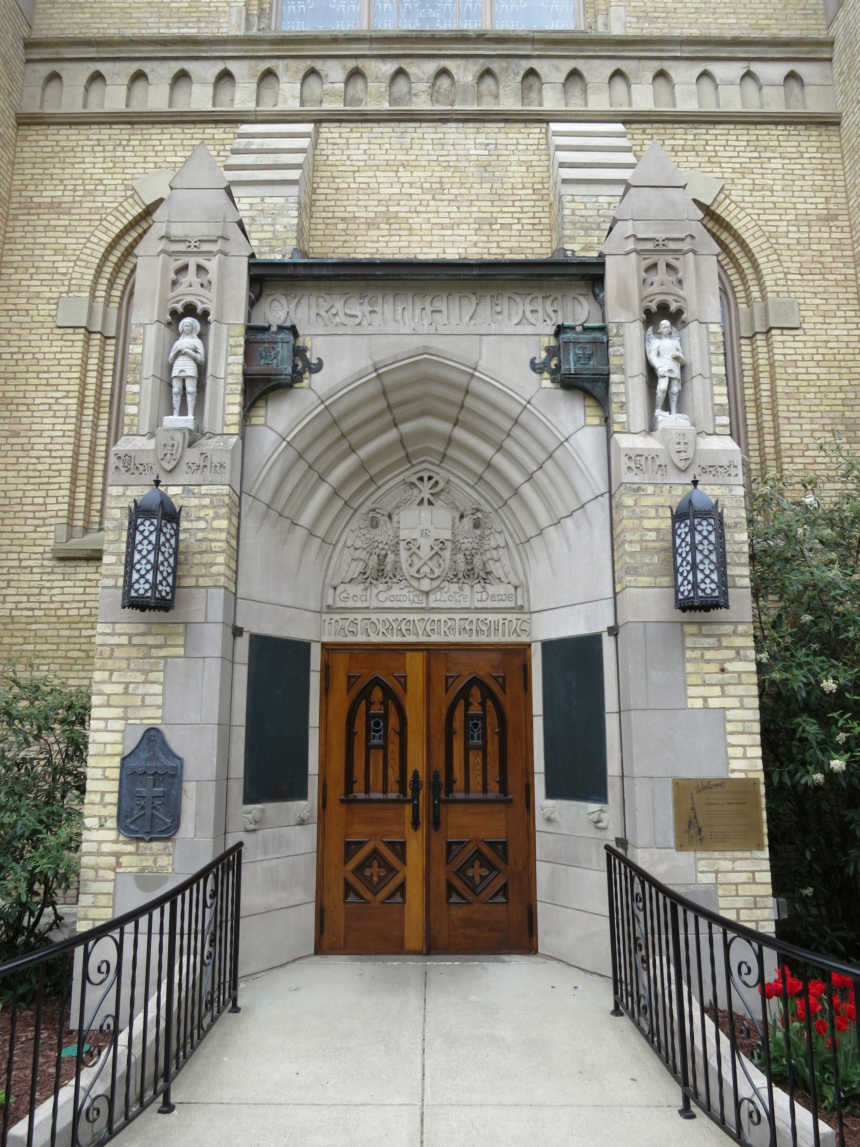 Basilica of the Sacred Heart (Notre Dame, Indiana) - exterior, east portal, memorial to Notre Dame students killed in WWI